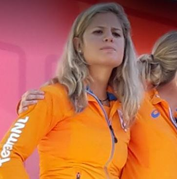 Foto of family archive taken with my mobilephone when my daughter Afrodite returned from OS of Rio